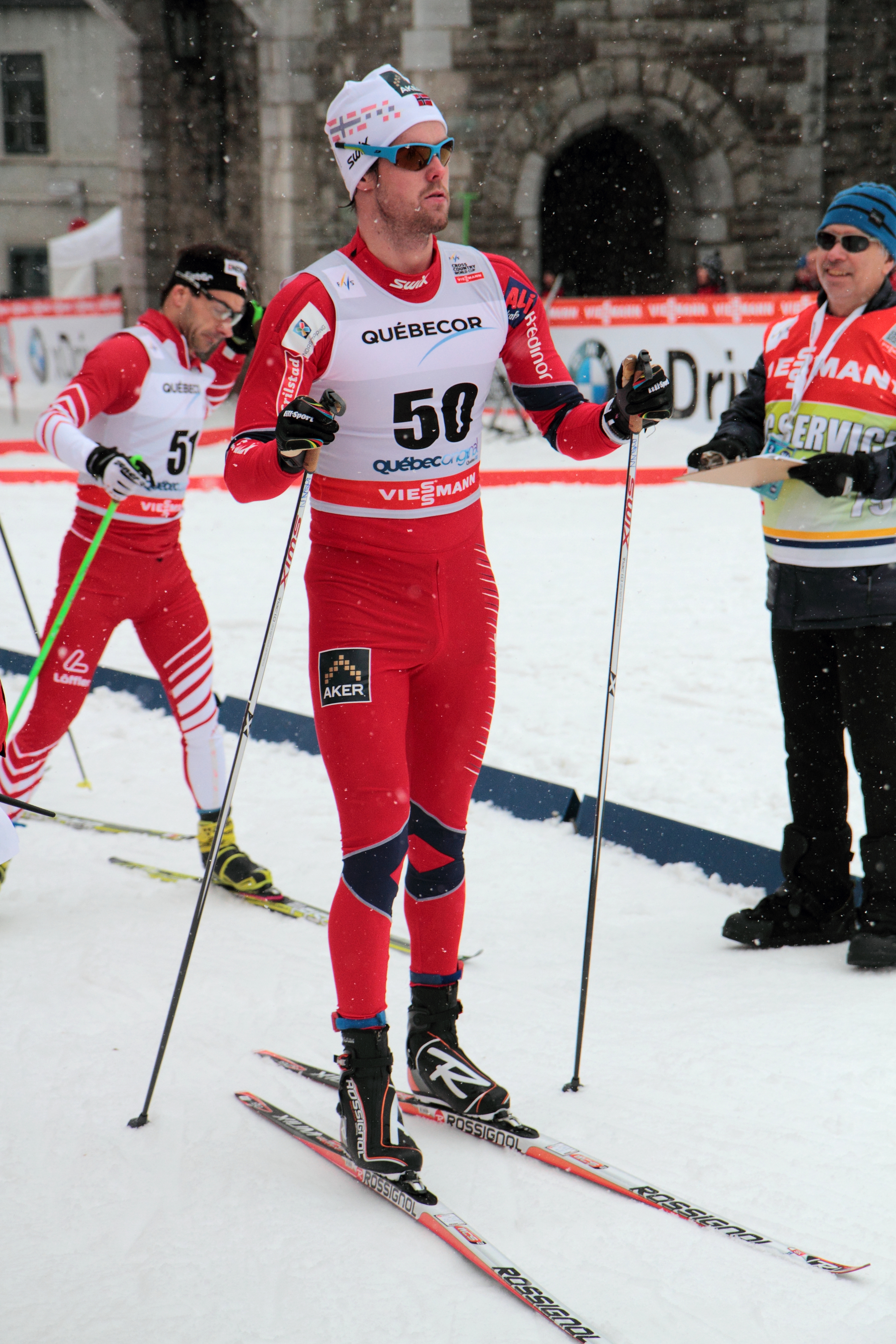 Torjus Boersheim, FIS Cross-Country World Cup 2012, Quebec, Canada.